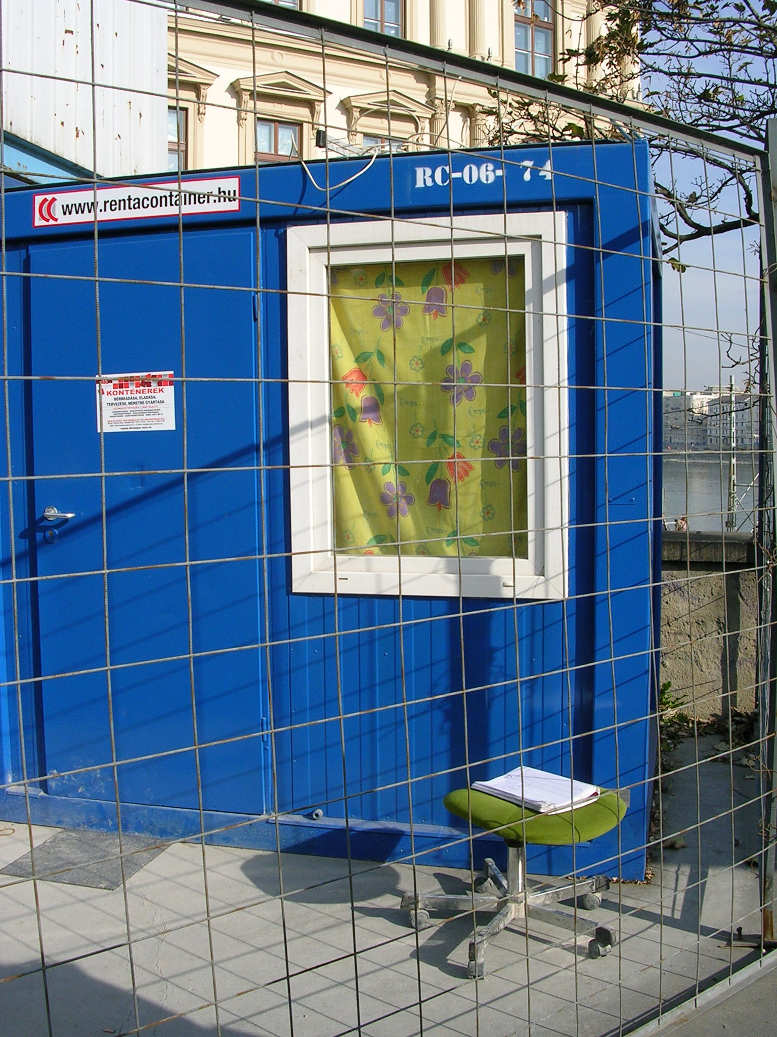 I took this photo myself.